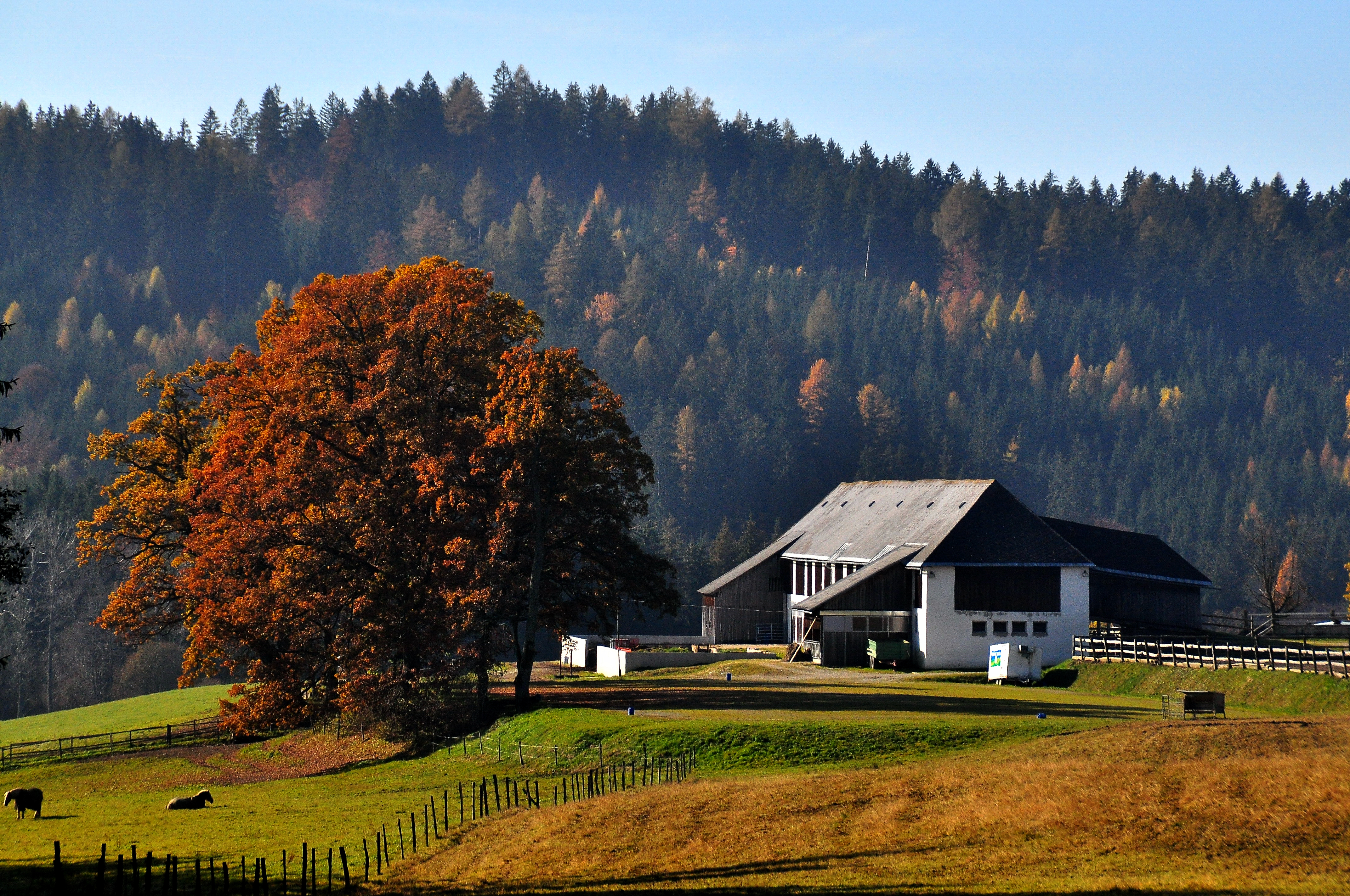 Farmhouse in the hamlet Tauern in the municipality Ossiach, district Feldkirchen, Carinthia, Austria